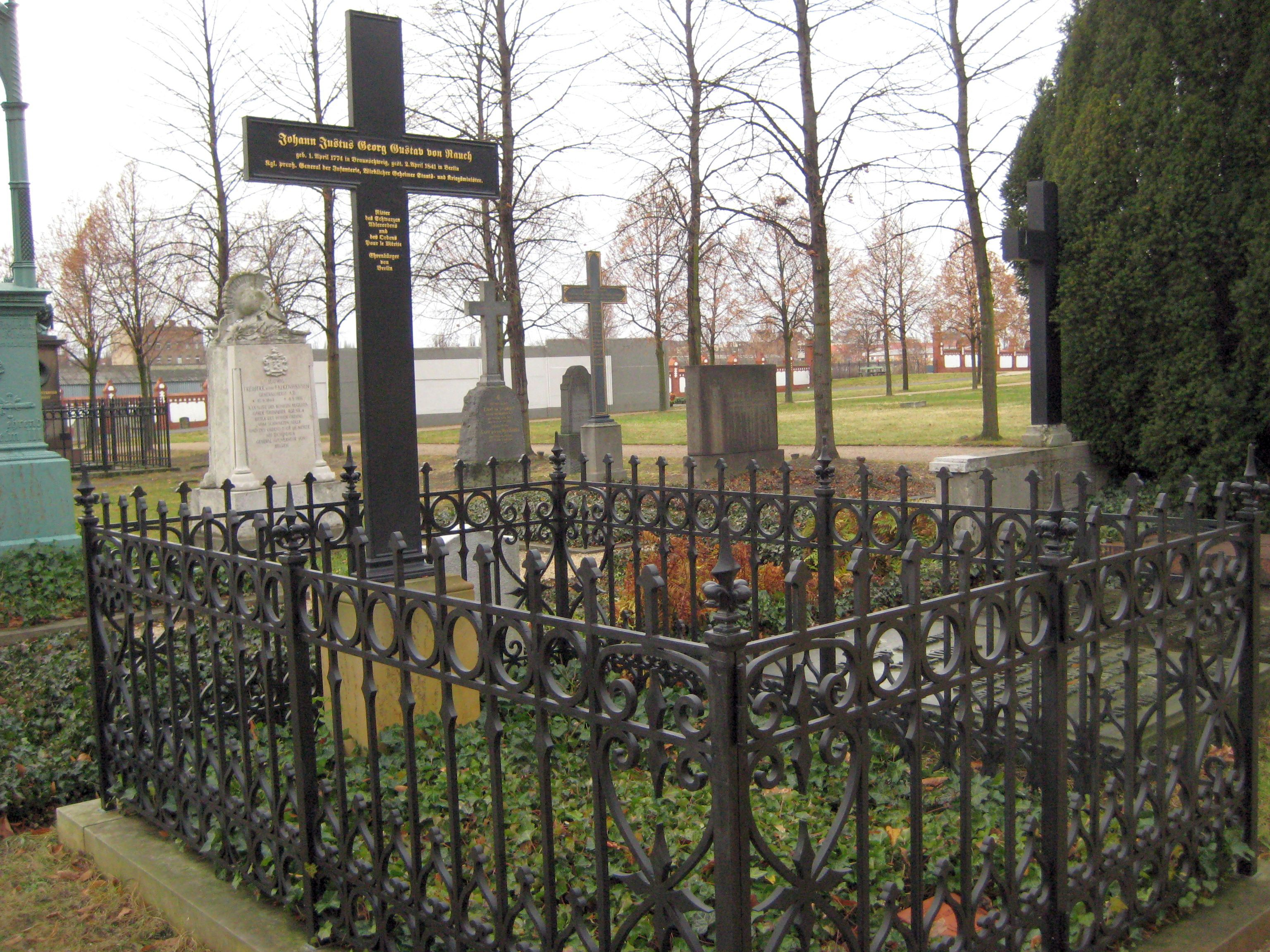 grave of Gustav von Rauch (1774-1841) on Invalidenfriedhof cemetery in Berlin